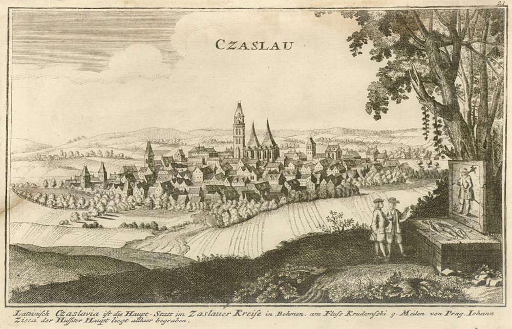 The bohemian town Czaslau / Čáslav